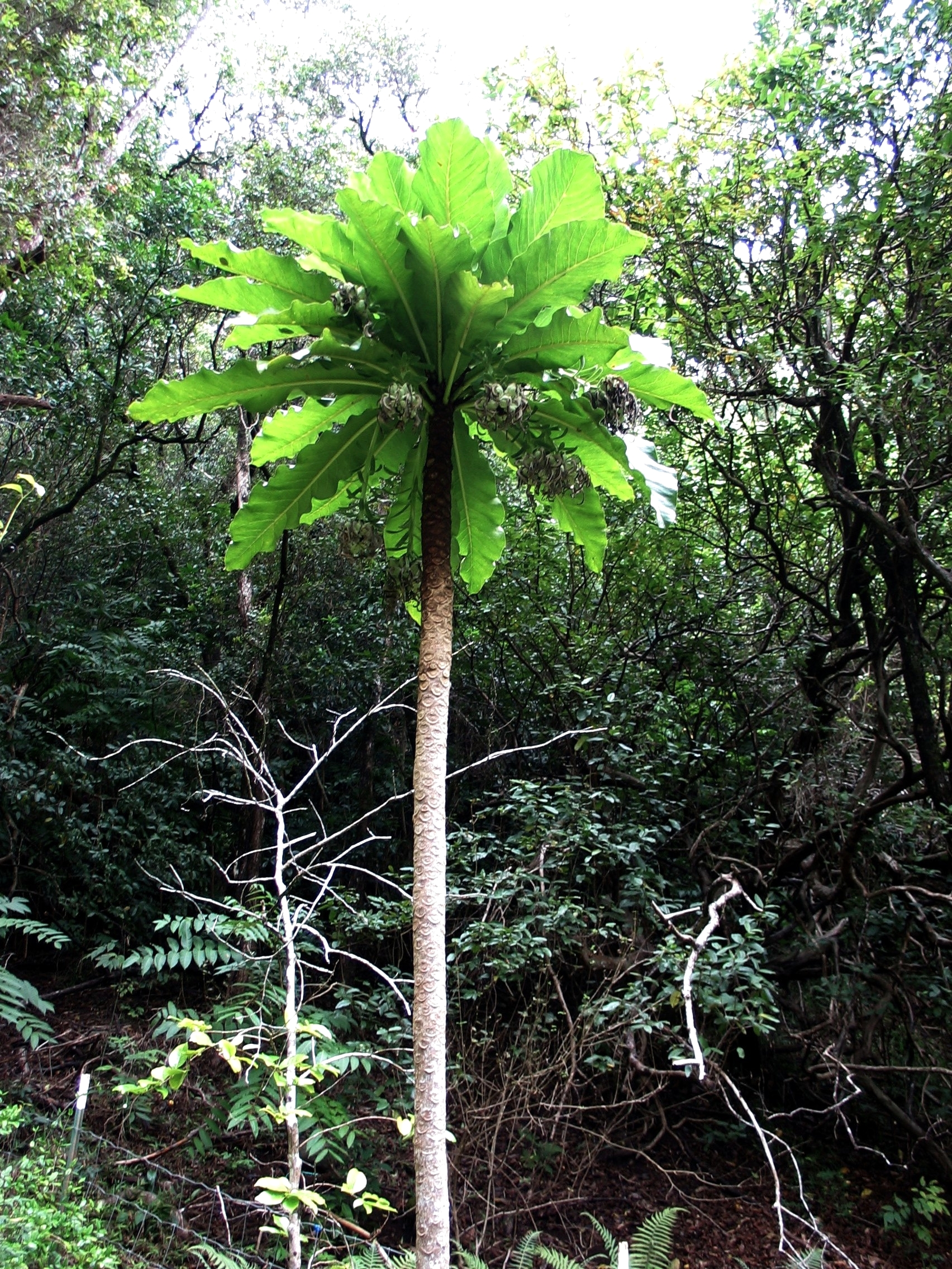 Hāhā or Superb cyanea Campanulaceae Endemic to the Hawaiian Islands (Oʻahu only) Endangered N. Waiʻanae Range, Oʻahu